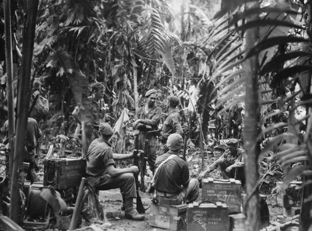 Members of the 31st/51st Battalion, Australian Army, during the Battle of Porton Plantion, June 1945.